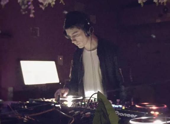 Notaker performing the mau5trap show at treehouse nightclub during miami music week